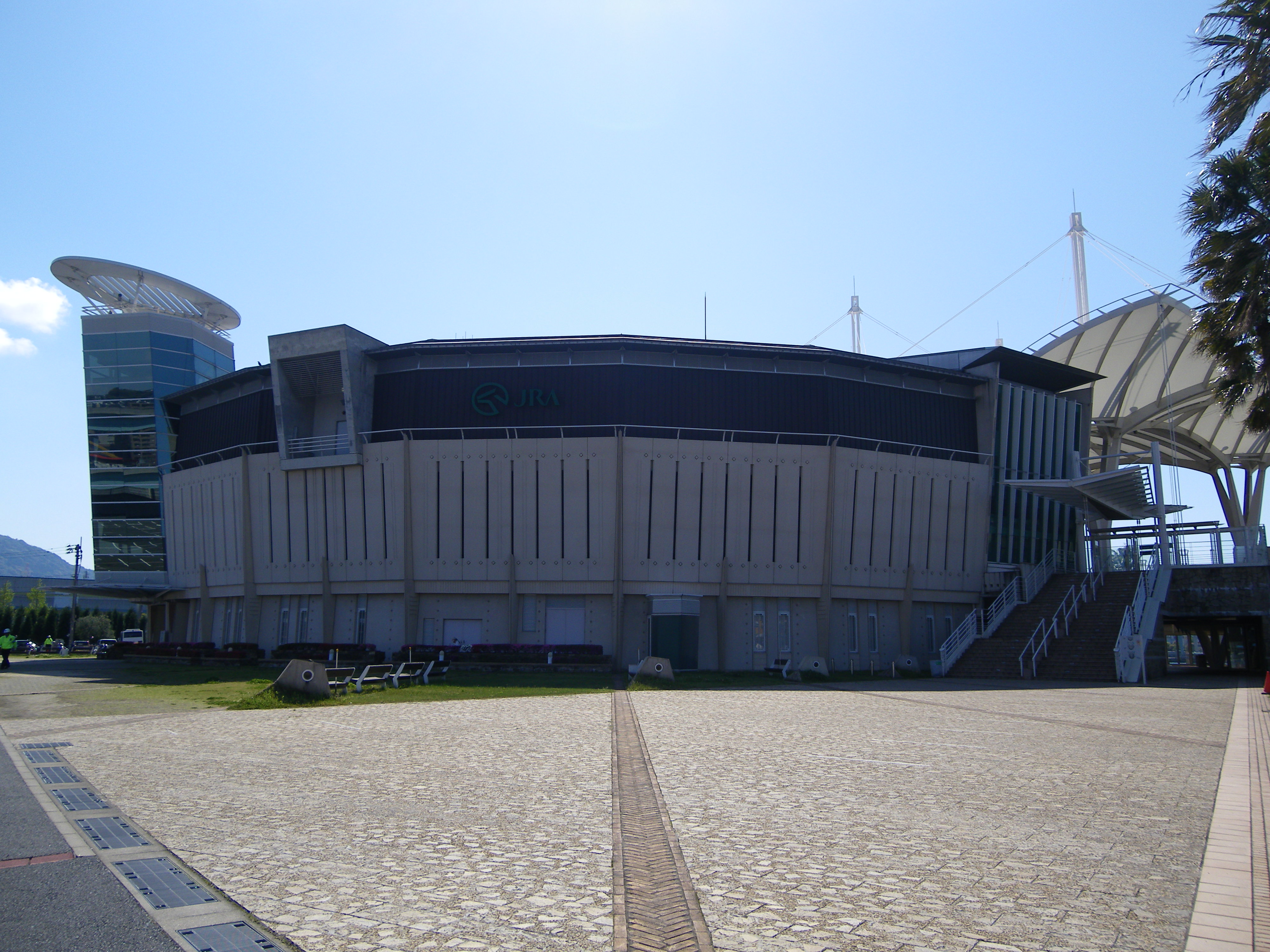 WINS Yahata